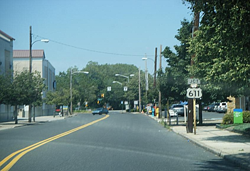 Northbound Easton Road approaching the intersection with Pennsylvania Route 611 in Willow Grove, Pennsylvania with an old junction U.S. Route 611 sign that was installed when Pennsylvania Route 611 was U.S. Route 611. The U.S. Route 611 shield is now missing from the sign.